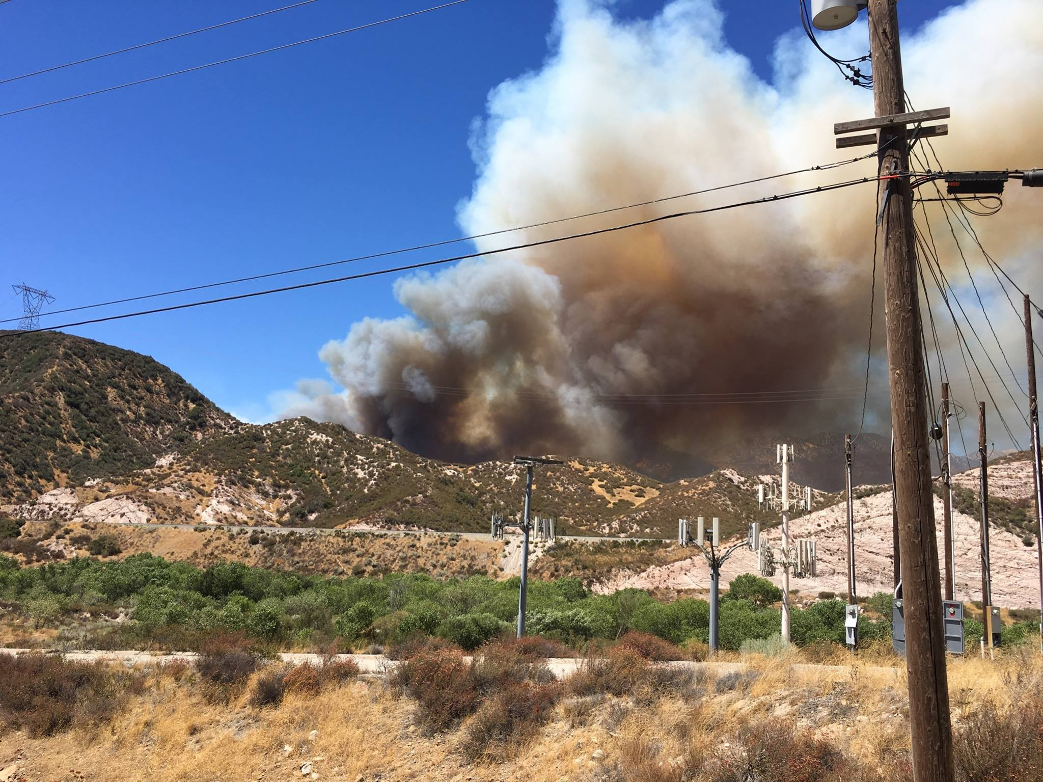 The Bluecut Fire in San Bernardino California.